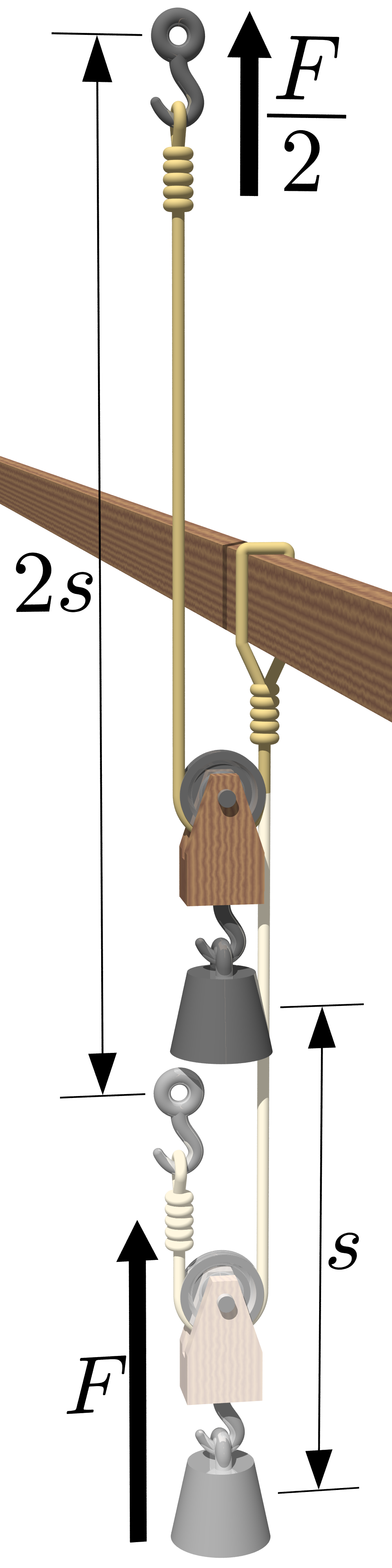 Shows the principle, forces and traveling distances in a basic tackle. Rendered using POV-Ray ( and the scene description code shown below. This image comes complete with annotations; letters, numbers and arrows. Because of this, rendering this image with POV-Ray requires the free TrueType fonts "cmr10.ttf" (Computer Modern Roman) and "cmmi10.ttf" (Computer Modern italics) either in the same directory as the .pov or installed globally on the computer. The scene description assumes that the image is four times as tall as it is wide! When rendering, remember to specify the width and height of the rendering accordingly.